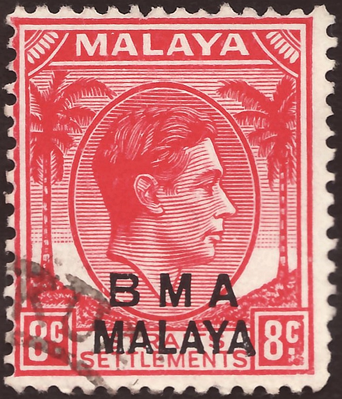 Stamp of the British Military Administration (B.M.A.) in British Malaya; 1945; definitive stamp as overprinted stamp of the issue for the Straits Settlements "George VI of the United Kingdom in oval with palm trees"; stamp printed with plate type II (Main characteristic: The palmtree dosn't hit the oval.); stamp with black, two-lines overprint "B.M.A. / MALAYA"; stamp postmarked Stamp: Michel: No. 6 (= Straits Settlements No. 216 from 1937 with overprint); Scott: No. 257 (= Starits Settlements No. 242 from 1937 with overprint) Color: scarlet to purple red Watermark: Straits Settlements No. 5 (St.Edward's Crown over convoluted characters "CA") Nominal value: 8 C (Cents) Postage validity: from August 1945 until April 1946 Stamp picture size (printed area): 19.0 x 22.5 mm